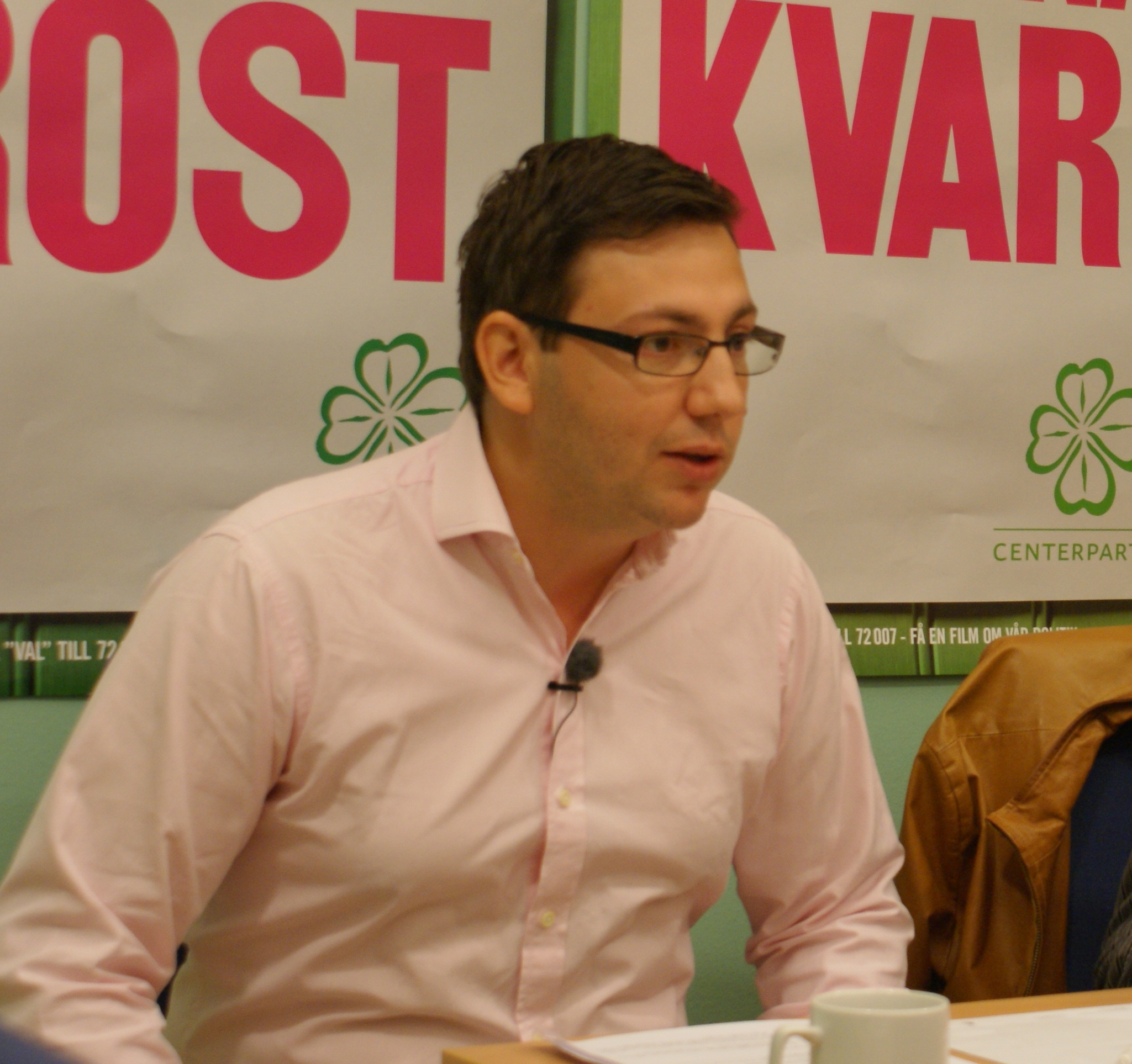 Swedish politician Muharrem Demirok